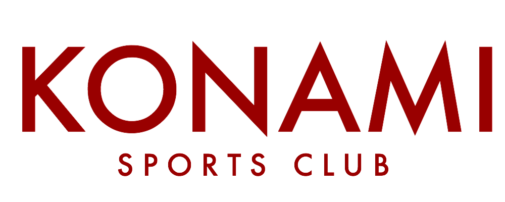 Konami Sports Logo